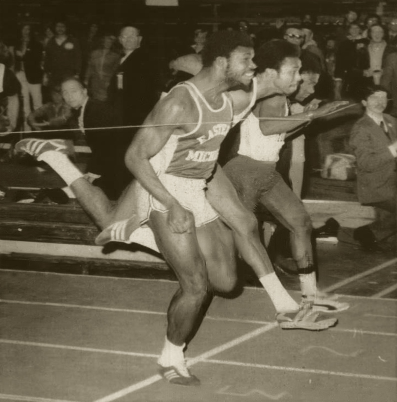 1975 Press Photo Olympic track athlete Hasley Crawford wins 60 yd dash, AAU meet